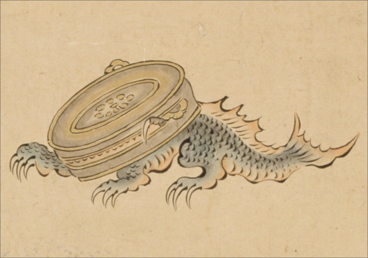 Waniguchi yokai (as per here, National Museum of Japanese History, Sakura, Chiba, Japan